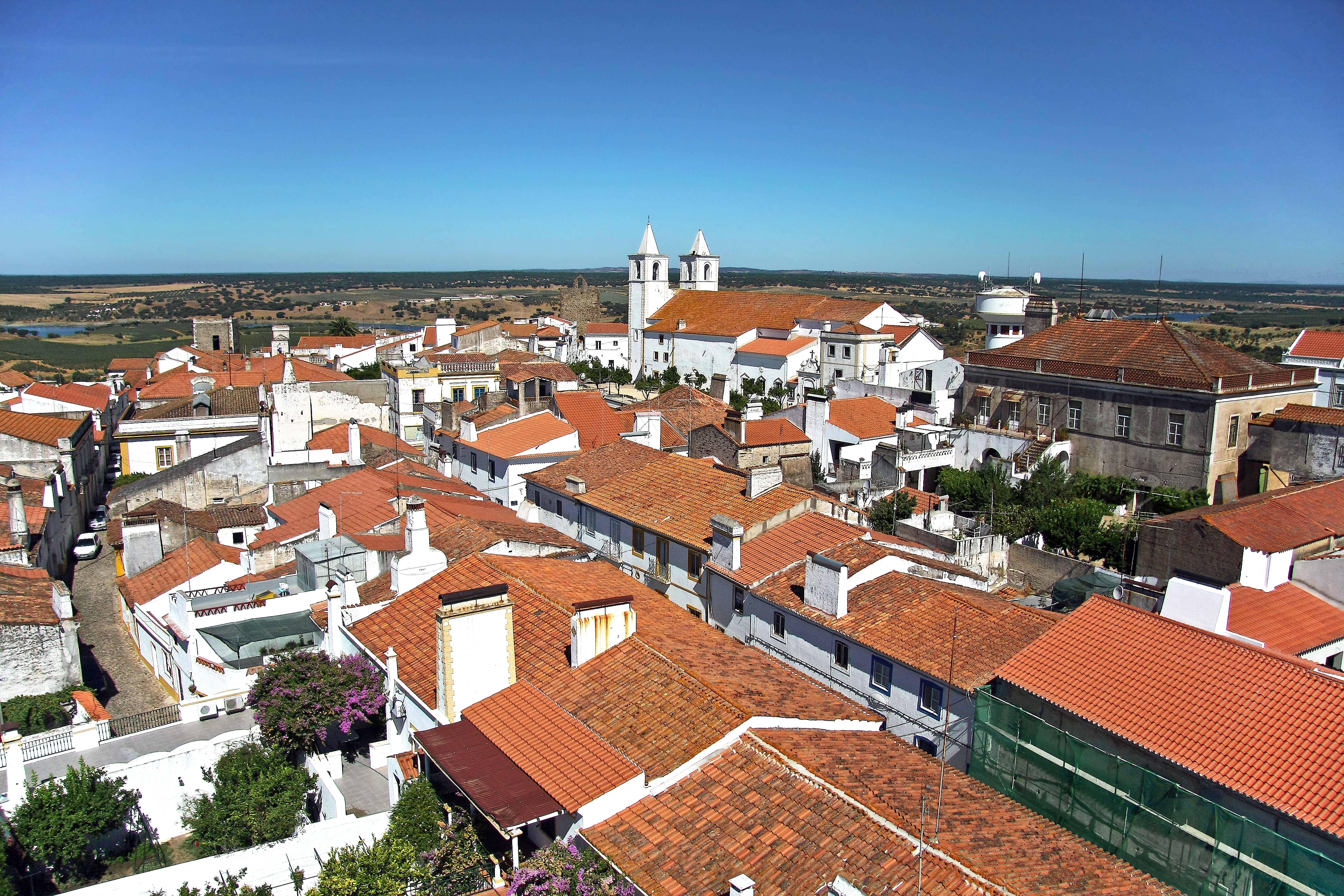 See where this picture was taken. [?]